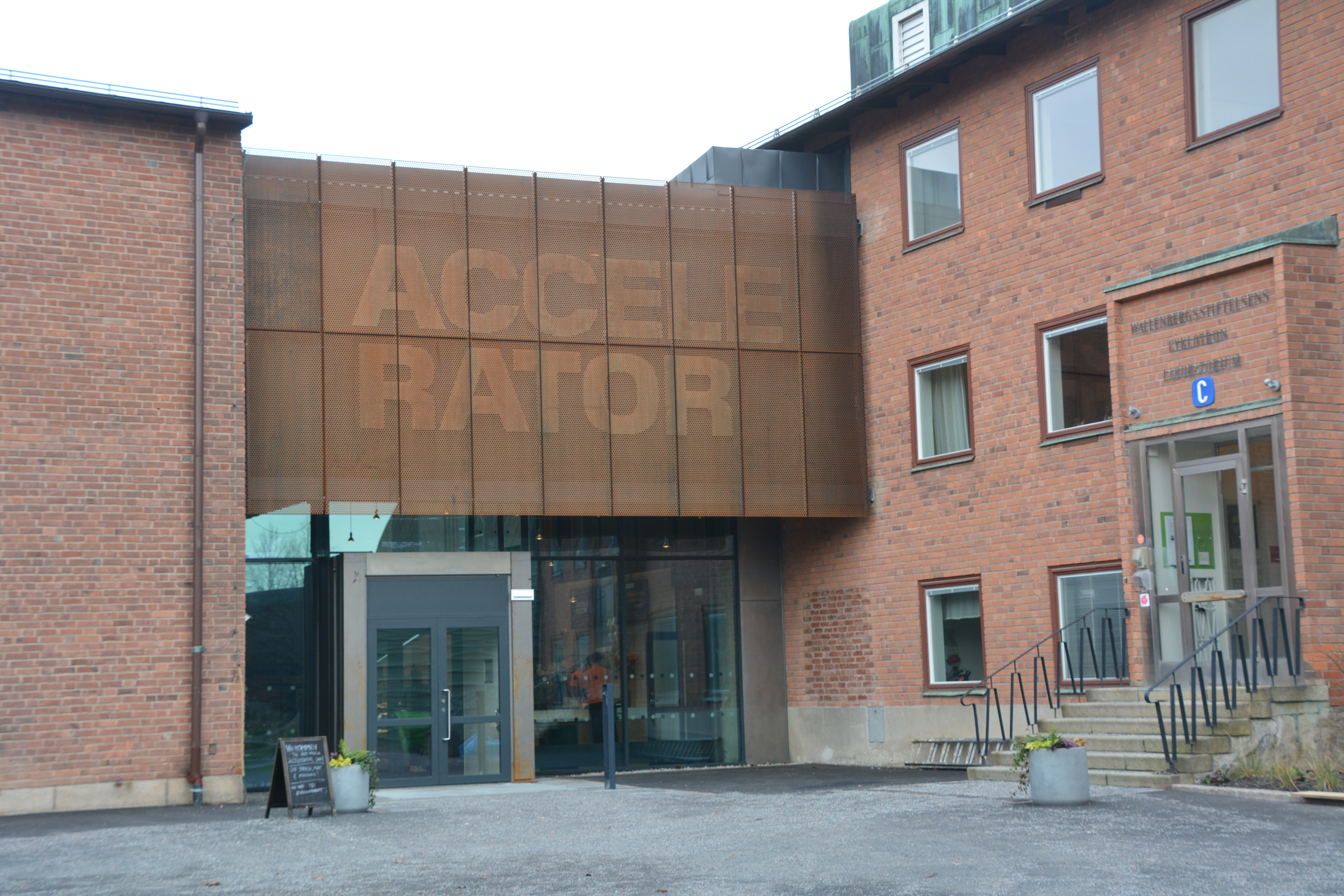 Art Gallery Accelerator, entrance